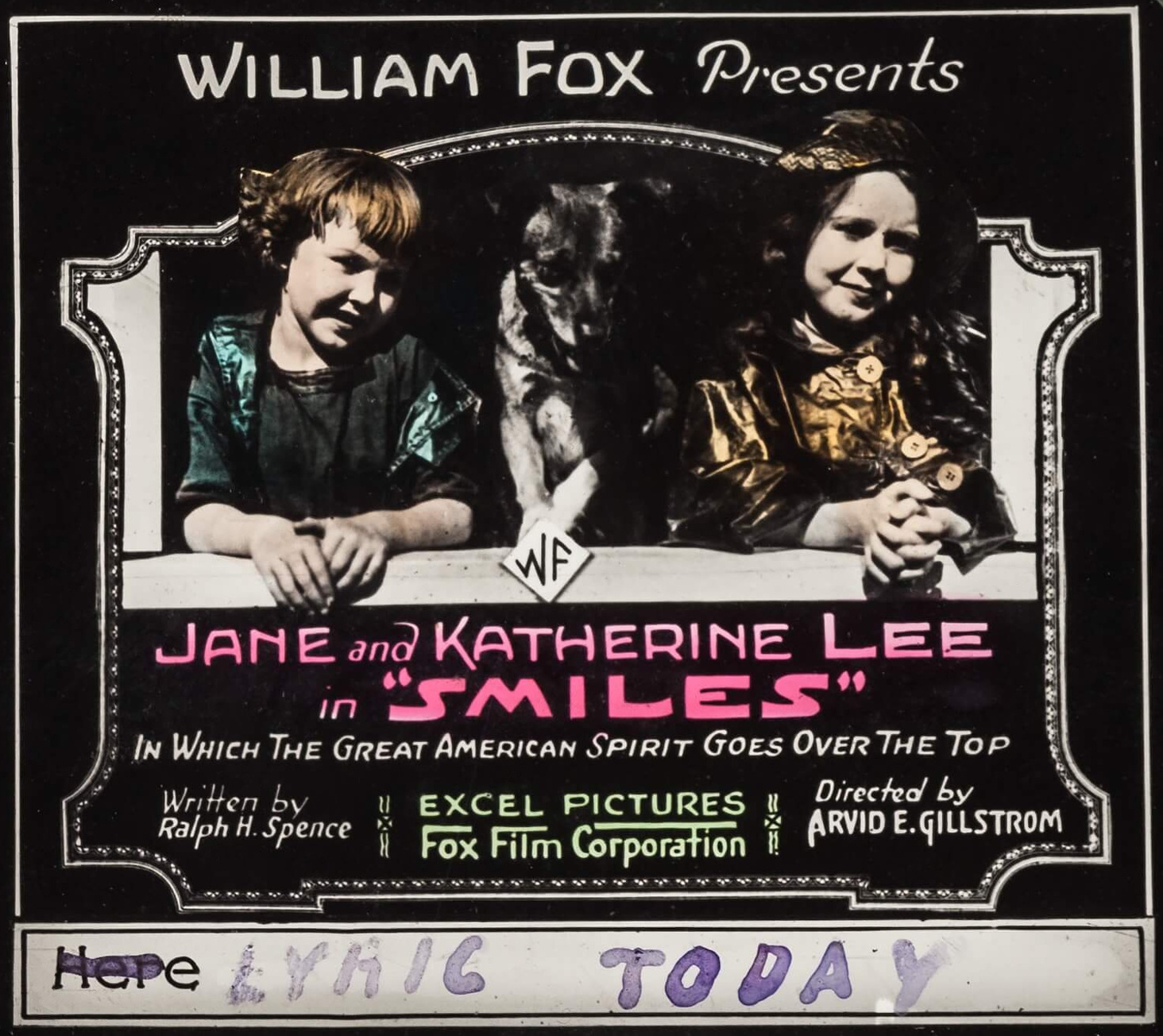 This is a lantern slide for the 1919 American silent war comedy film Smiles